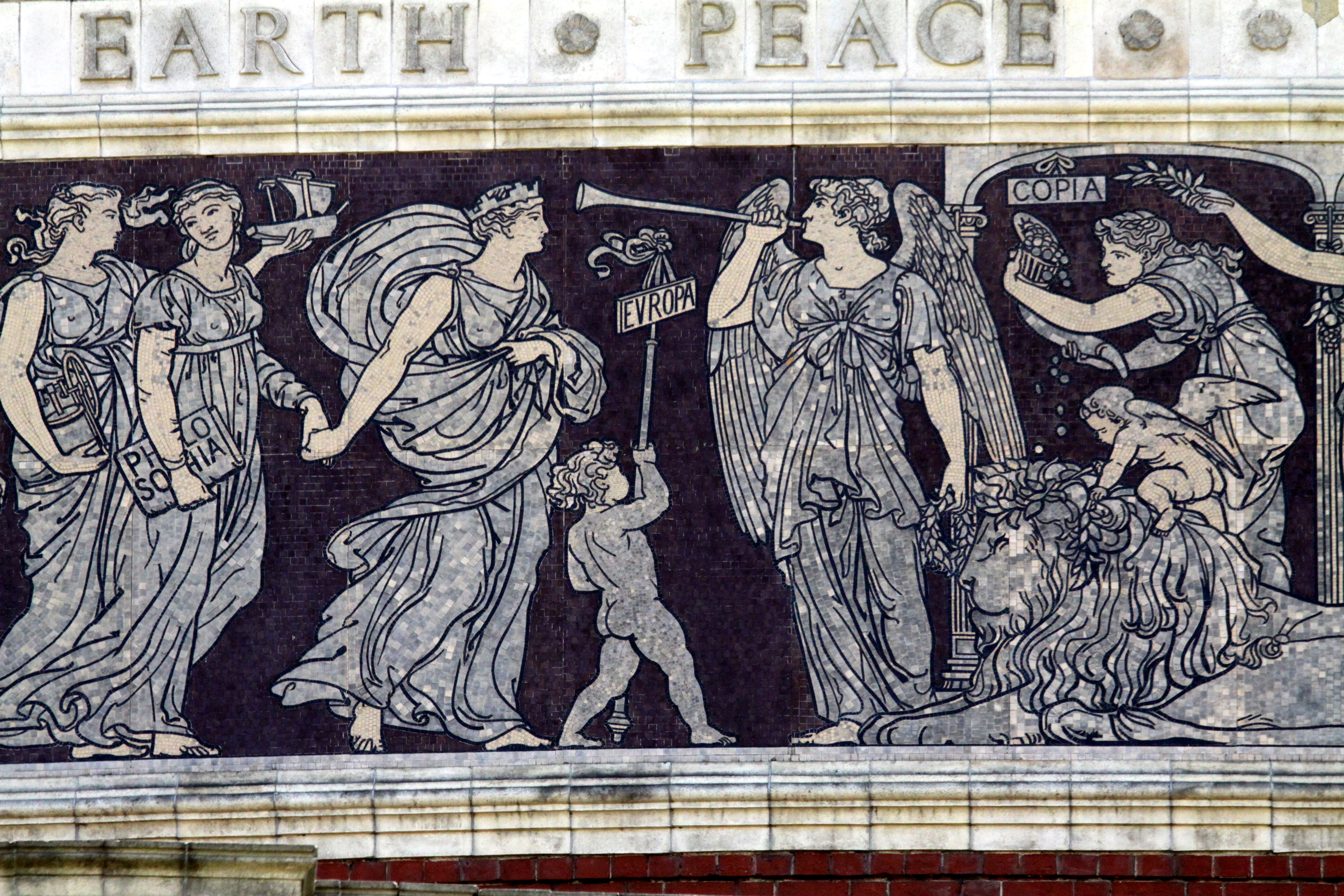 Frieze on the Royal Albert Hall in the City of Westminster, London, Great Britain. The making of this file was supported by Wikimedia UK.